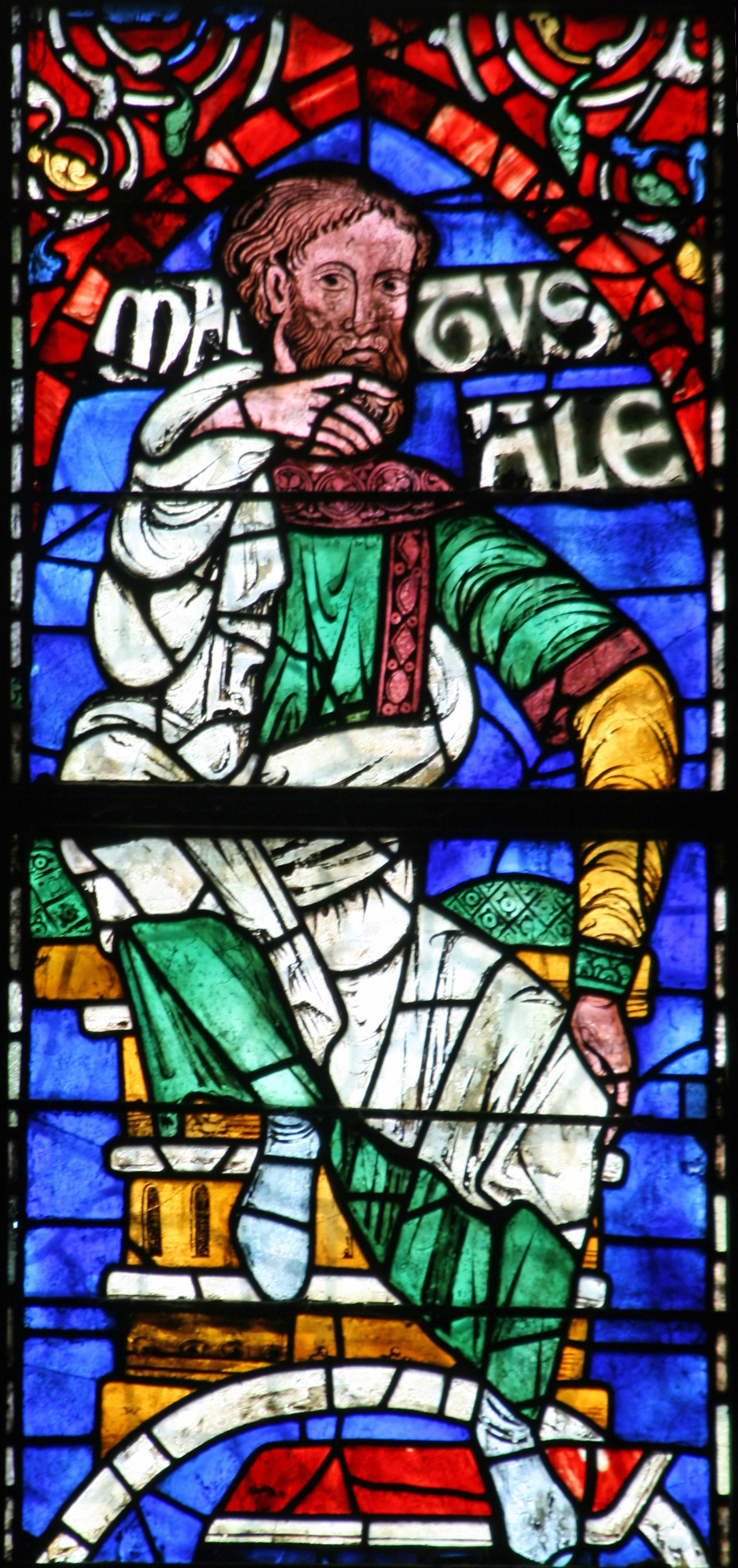 Stained glass window in south-west transept of Canterbury Cathedral depicting Methuselah, who according to the bible was Noah's grandfather, and lived to be 969 years old.